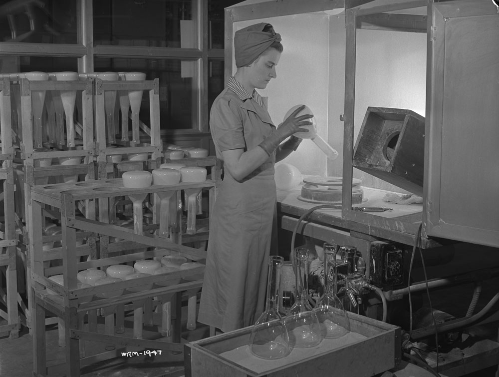 One of Research Enterprise's more popular products was a series of CRTs used for radar and radio navigation systems. Here the insides of the tubes are being coated with phosphorus paint to produce the display surface.